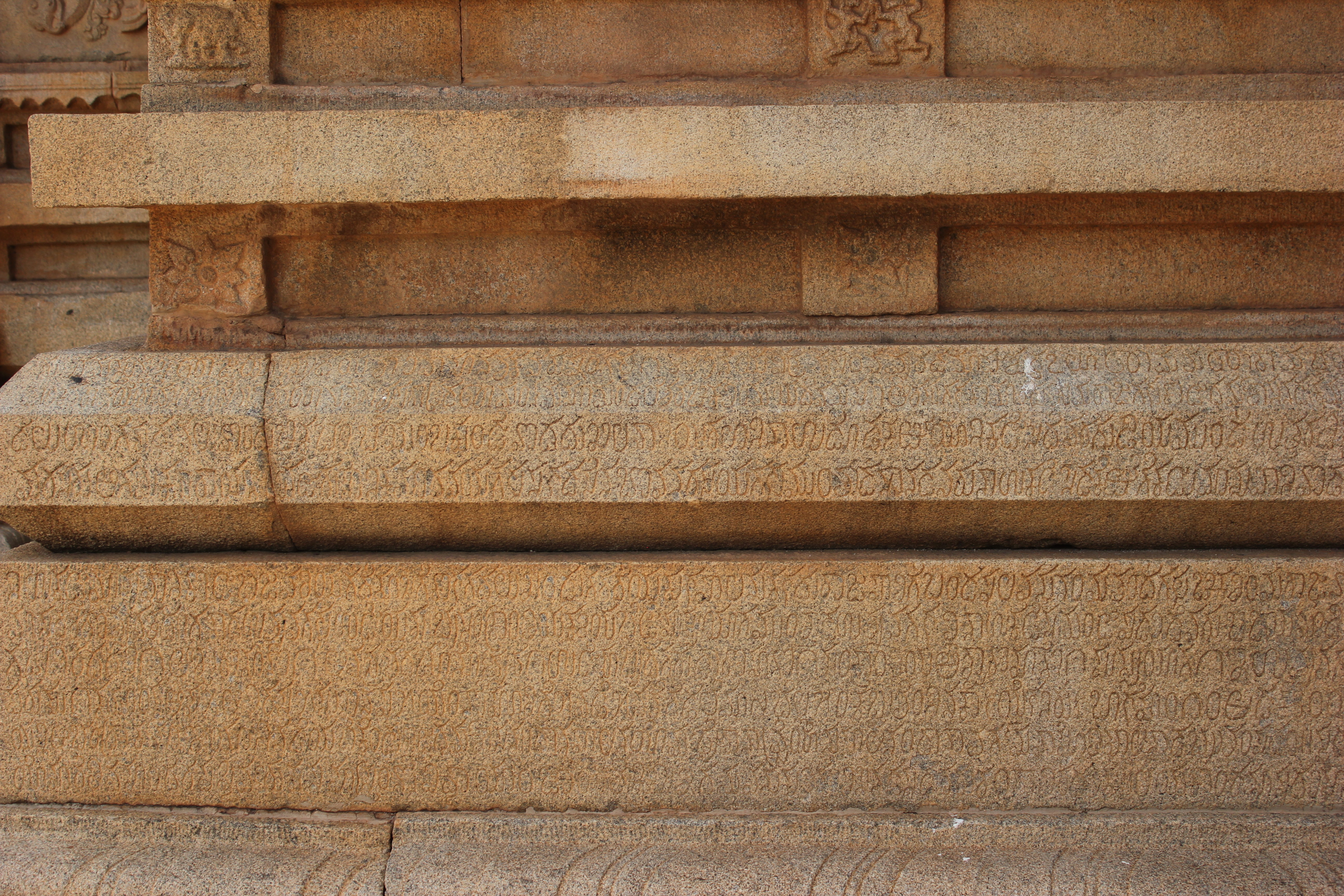 This photograph of a Kannada language inscription of King Krishnadeva Raya (1521 A.D.) was taken by me at the Hazara Rama temple in Hampi, a UNESCO world heritage site in Bellary district, Karnataka state, India.